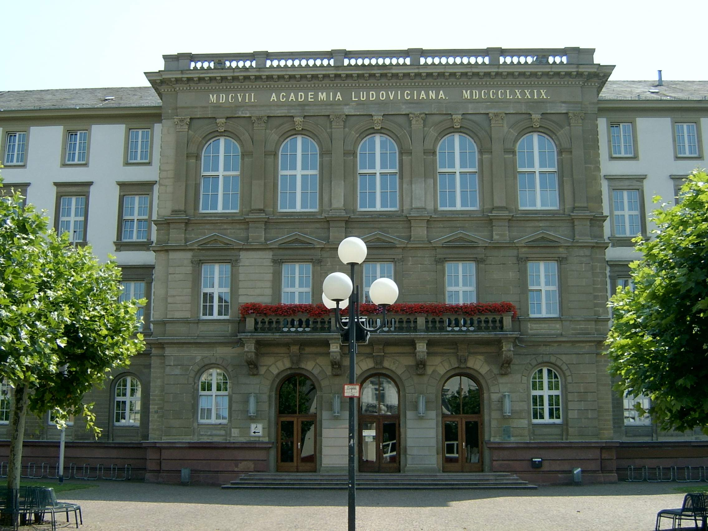 Main building of the Justus-Liebig-Universität Gießen. 71″ N, 8° 40′ 36.14″ E